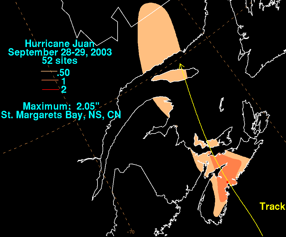 Rainfall produced by Hurricane Juan during September 2003.